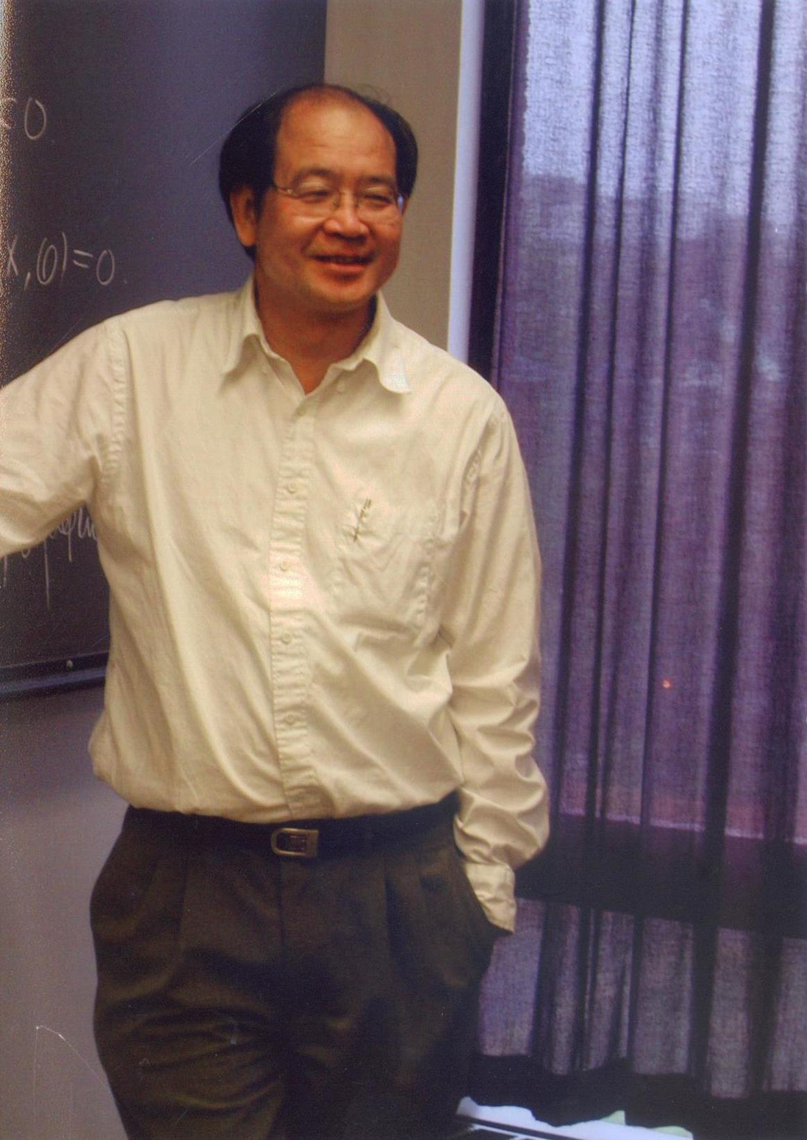 Yum-Tong Siu in the Harvard Math Department.